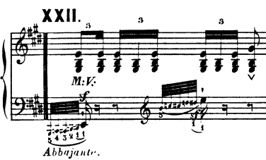 Twenty-second variation of Le festin d'Ésope, composed by by Charles-Valentin Alkan